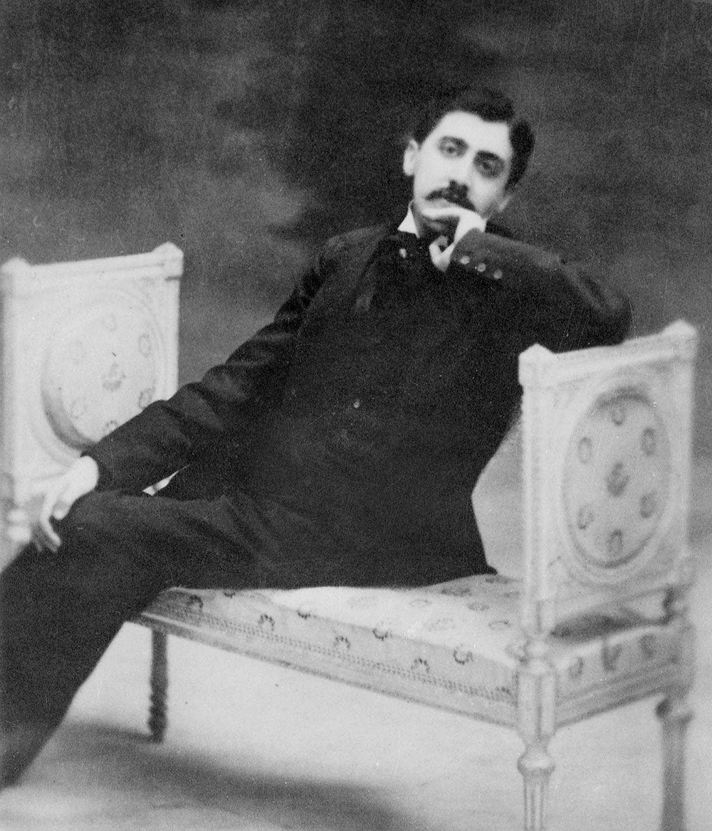 Marcel Proust vers 1895. Photo de Otto Wegener